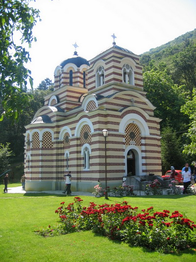 Serbian Orthodox church in Niška Banja, Serbia.